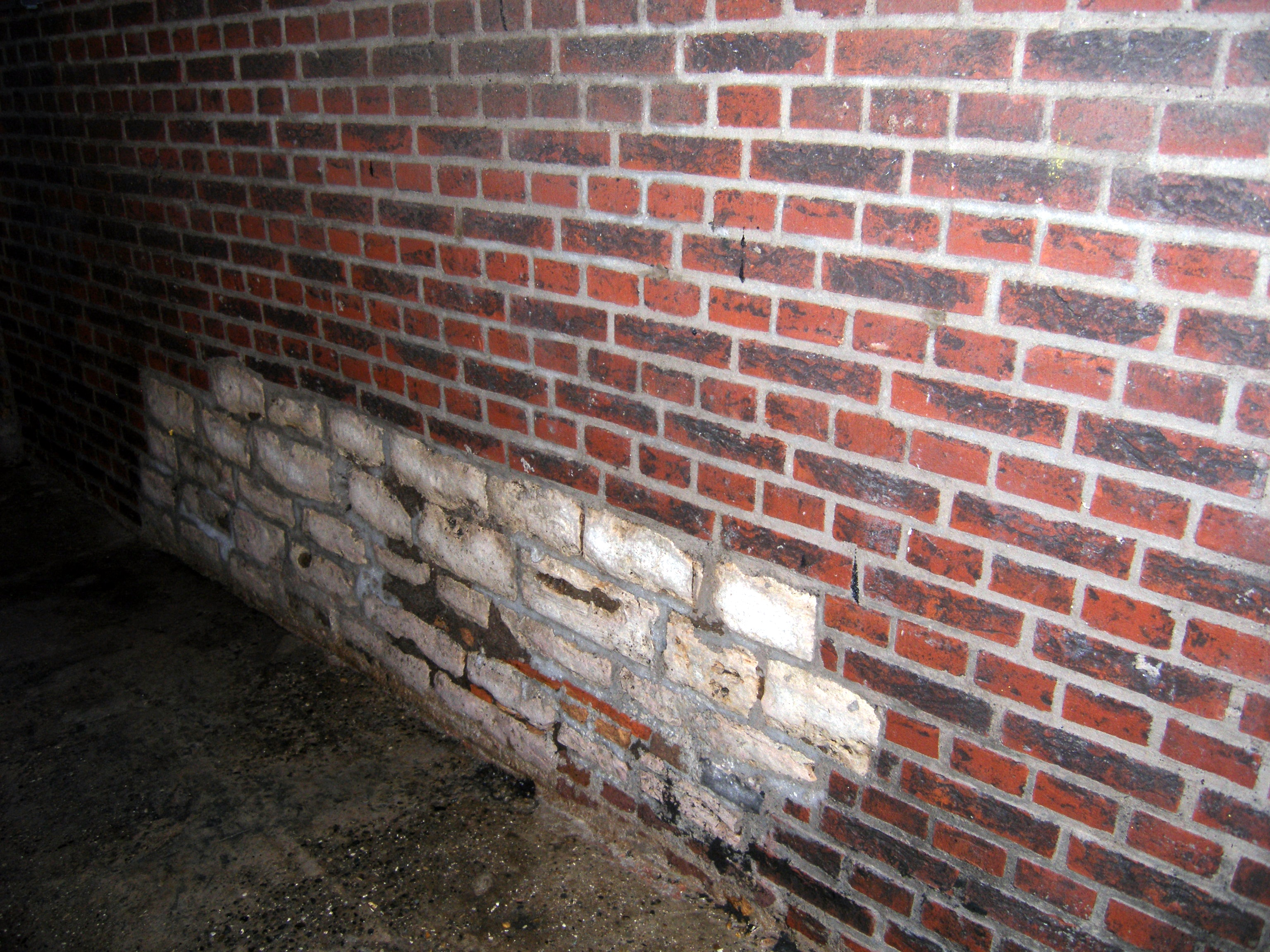 De Grebbe, a sewer in Bergen op Zoom that originates from the 13th century AD. Picture taken near 39 Moeregrebstraat. The white stones are the original embankment.